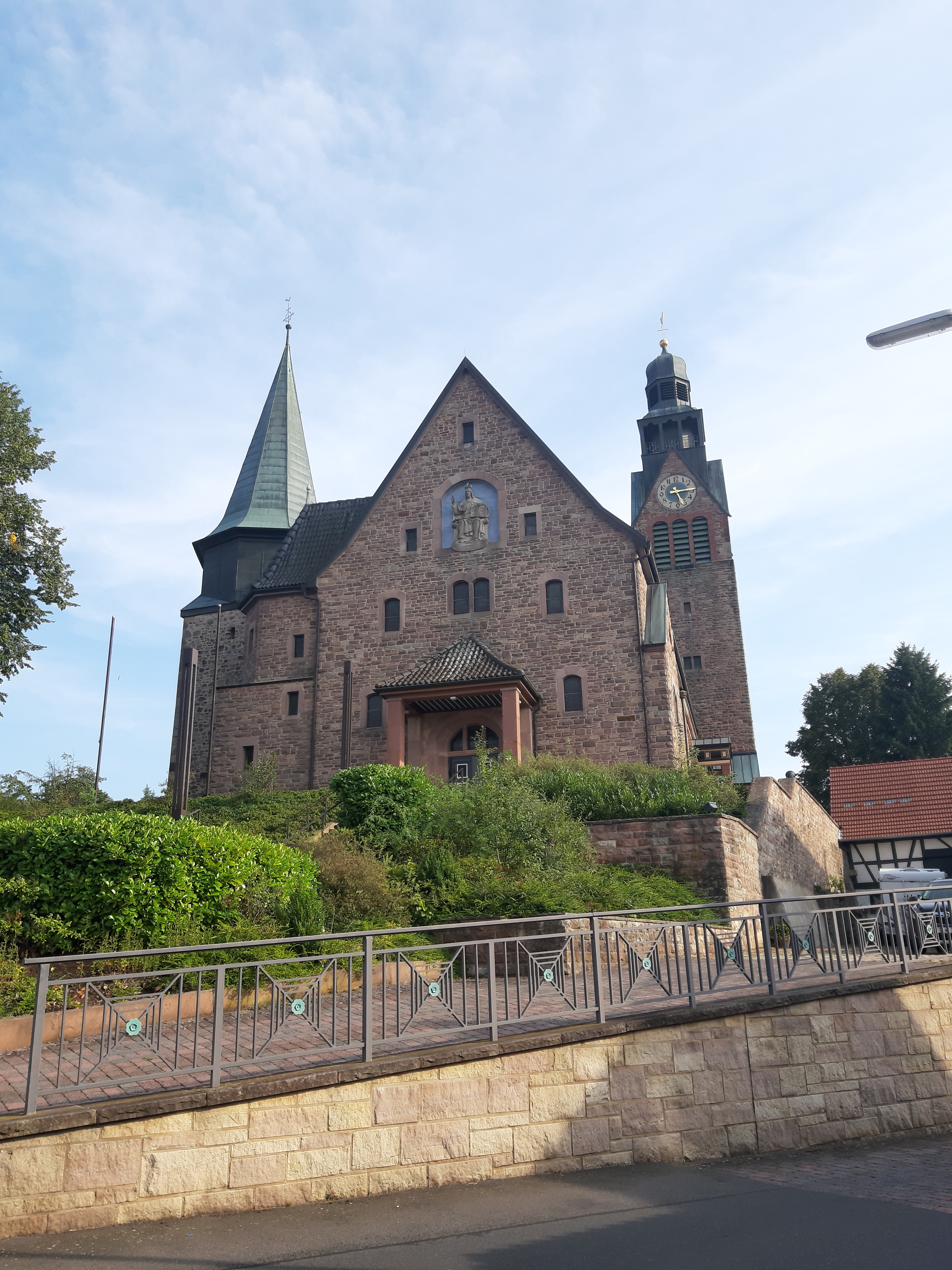 This is the front view of the church of the small village Schwarzbach (part of Hofbieber) in Hesse, Germany.